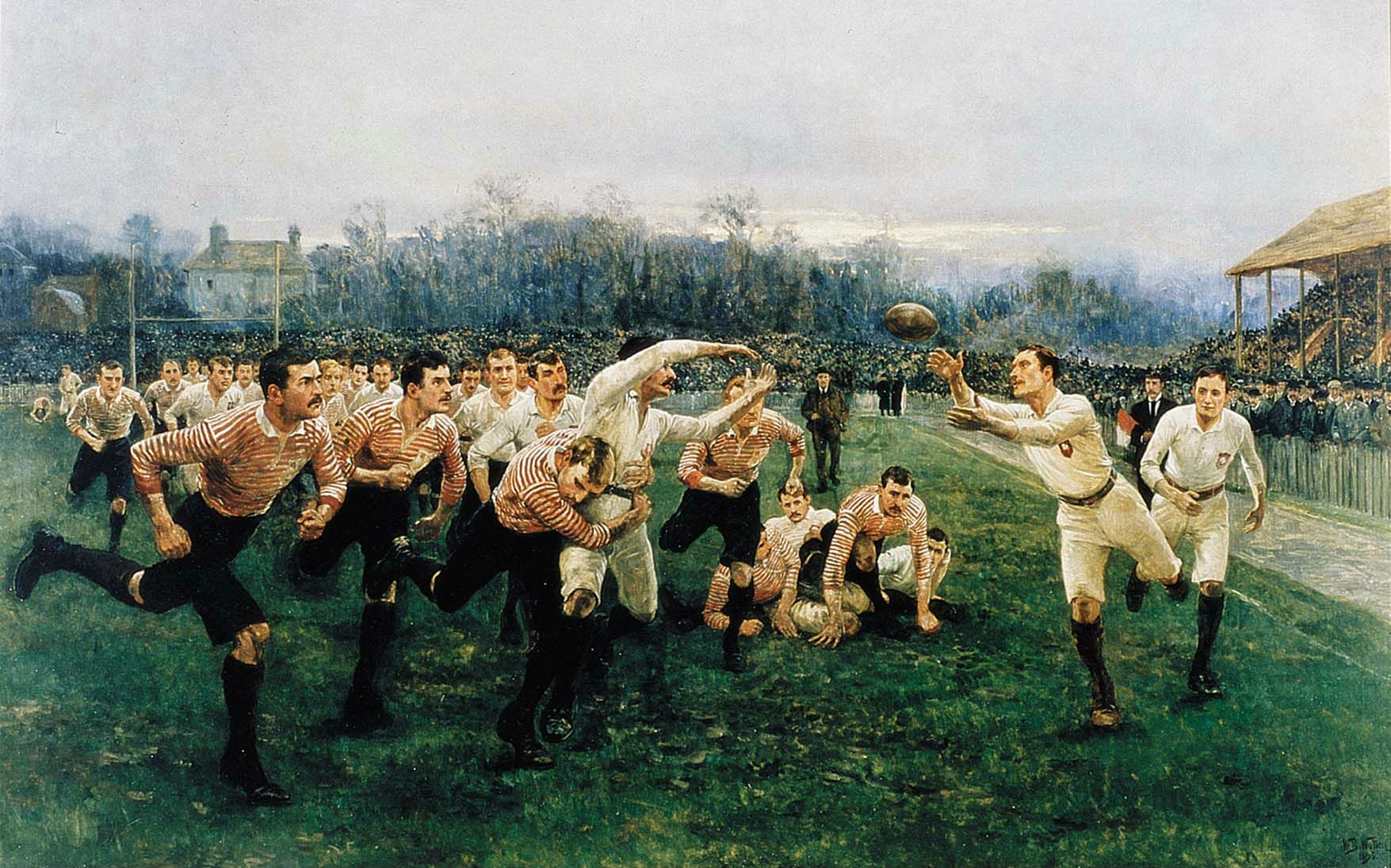 The Battle of the Roses. The rugby match between Yorkshire and Lancashire in 1893. Yorkshire are in the all-white strip. Lancashire wear the red and white hooped jerseys and black shorts.